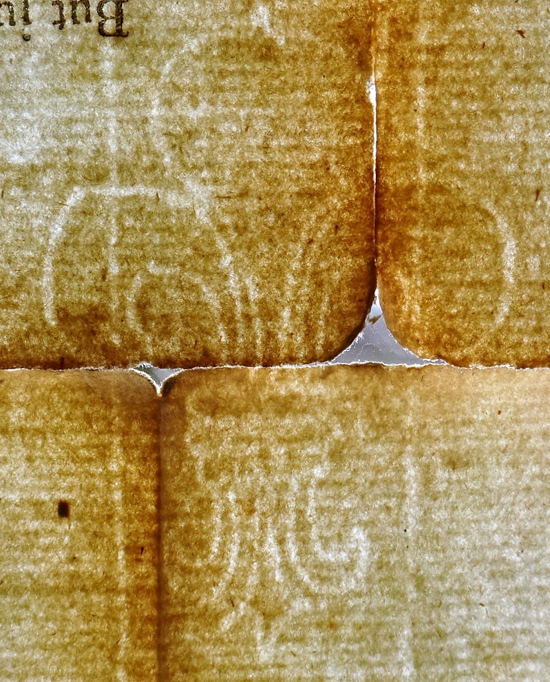 A fleur-de-lis watermark on handmade paper, 1787 Edinburgh Edition, Burns Poems.